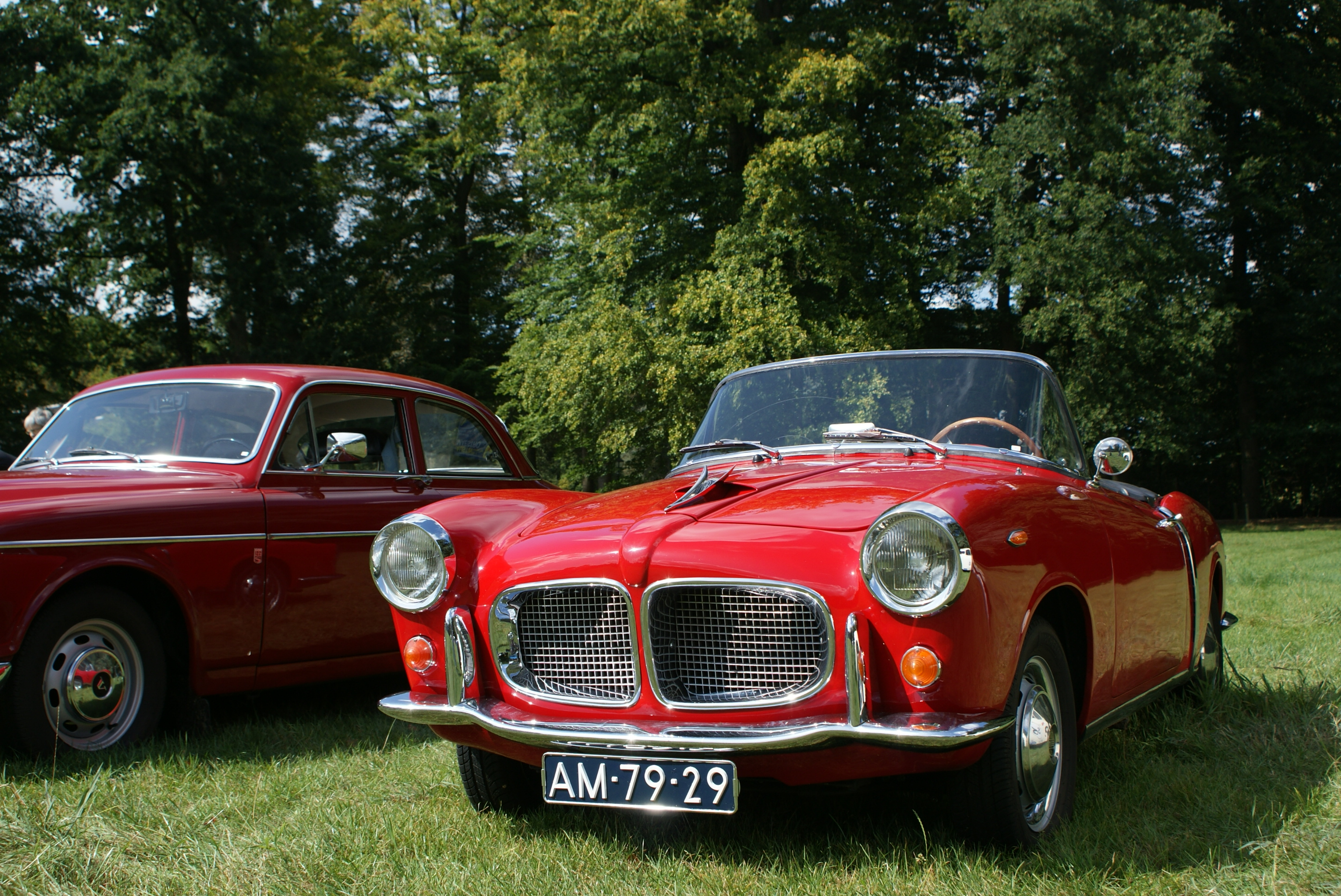 AM-79-29. 1221cc Fiat tipo 103G, a 1200TV Trasformabile. AutoJumble Doorn 2009